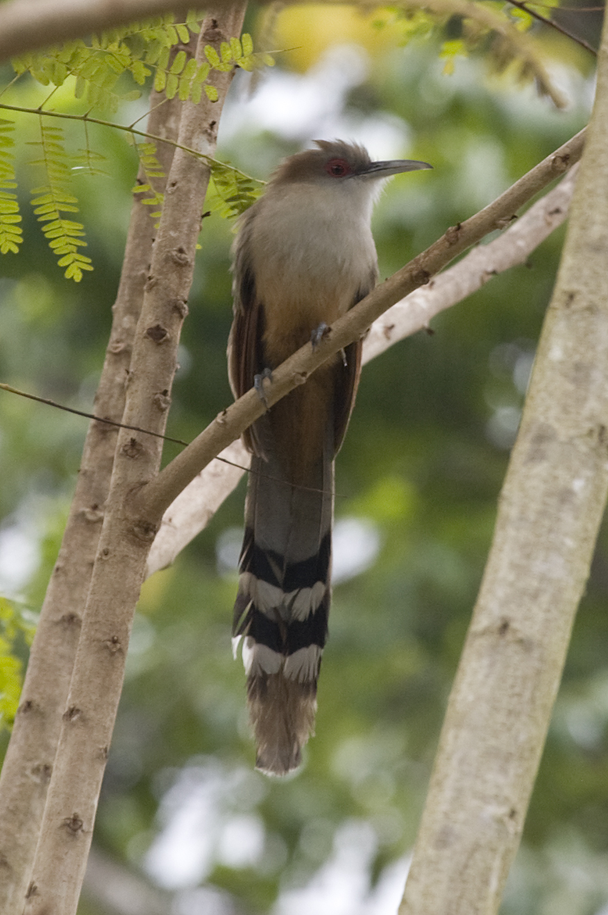 A Great Lizard Cuckoo in Pinar del Rio Province, Cuba.